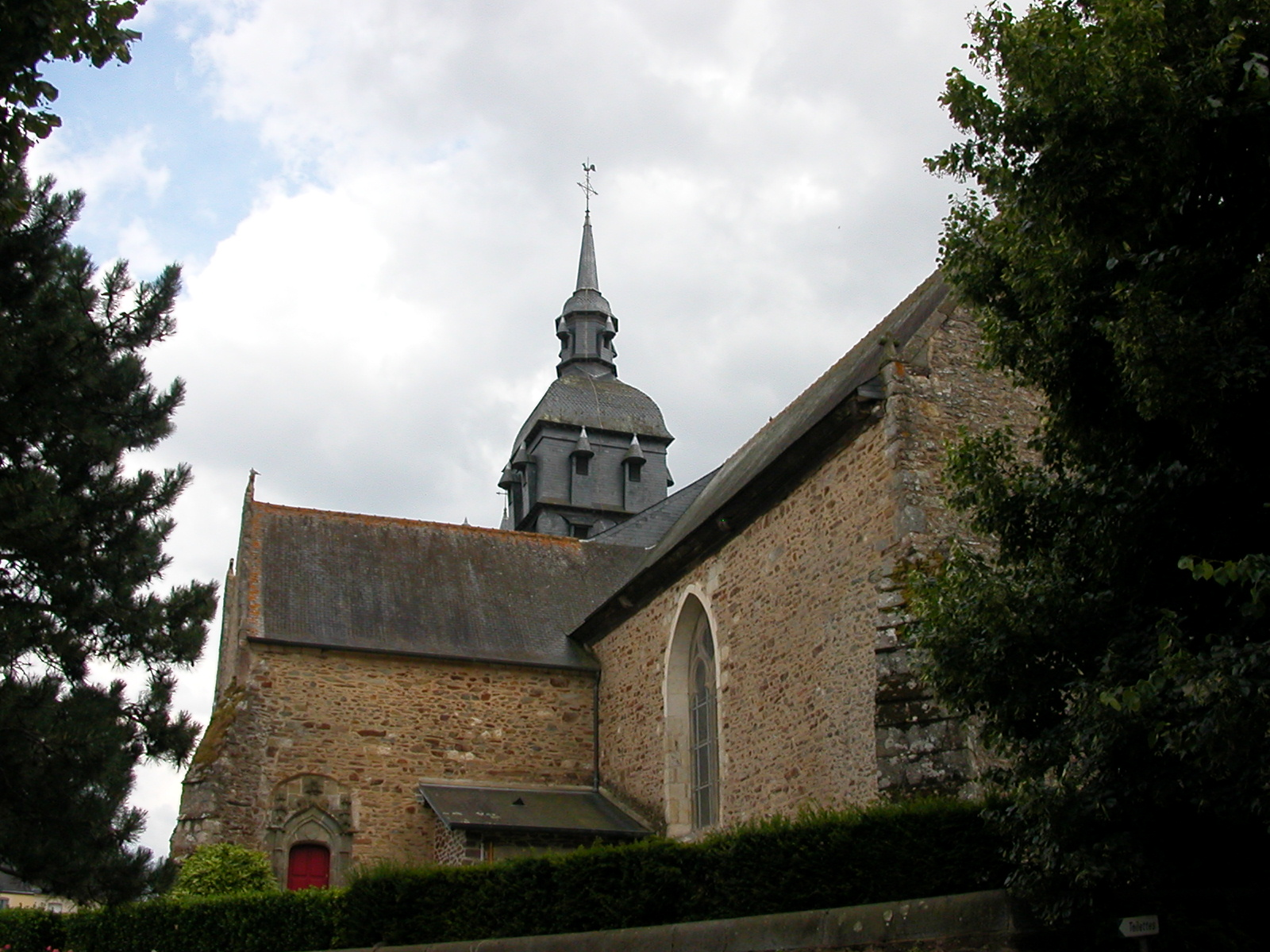 Church of Pacé, Ille-et-Vilaine